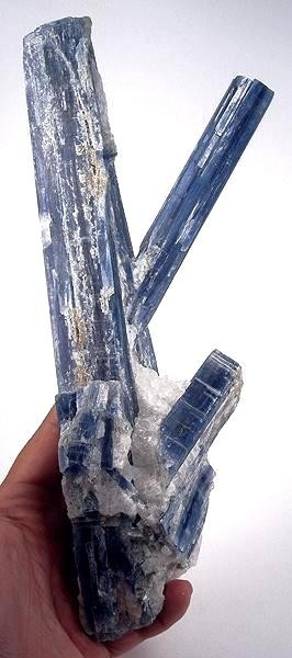 Kyanite Locality: Bahia, Northeast Region, Brazil (Locality at ) Size: 26.8 x 11.1 x 6.2 cm. This is a dramatic and really showy example of this common species. At nearly 1 kilogram (2 pounds), it is hefty and impactful in person. This is from a particularly good pocket that came up in 2008, and from which much was sold as "decorator rocks." However, careful sorting found a few choice specimens with good crystals, consistent color, and some aesthetic arrangement amidst most of them that really were just there for the color.